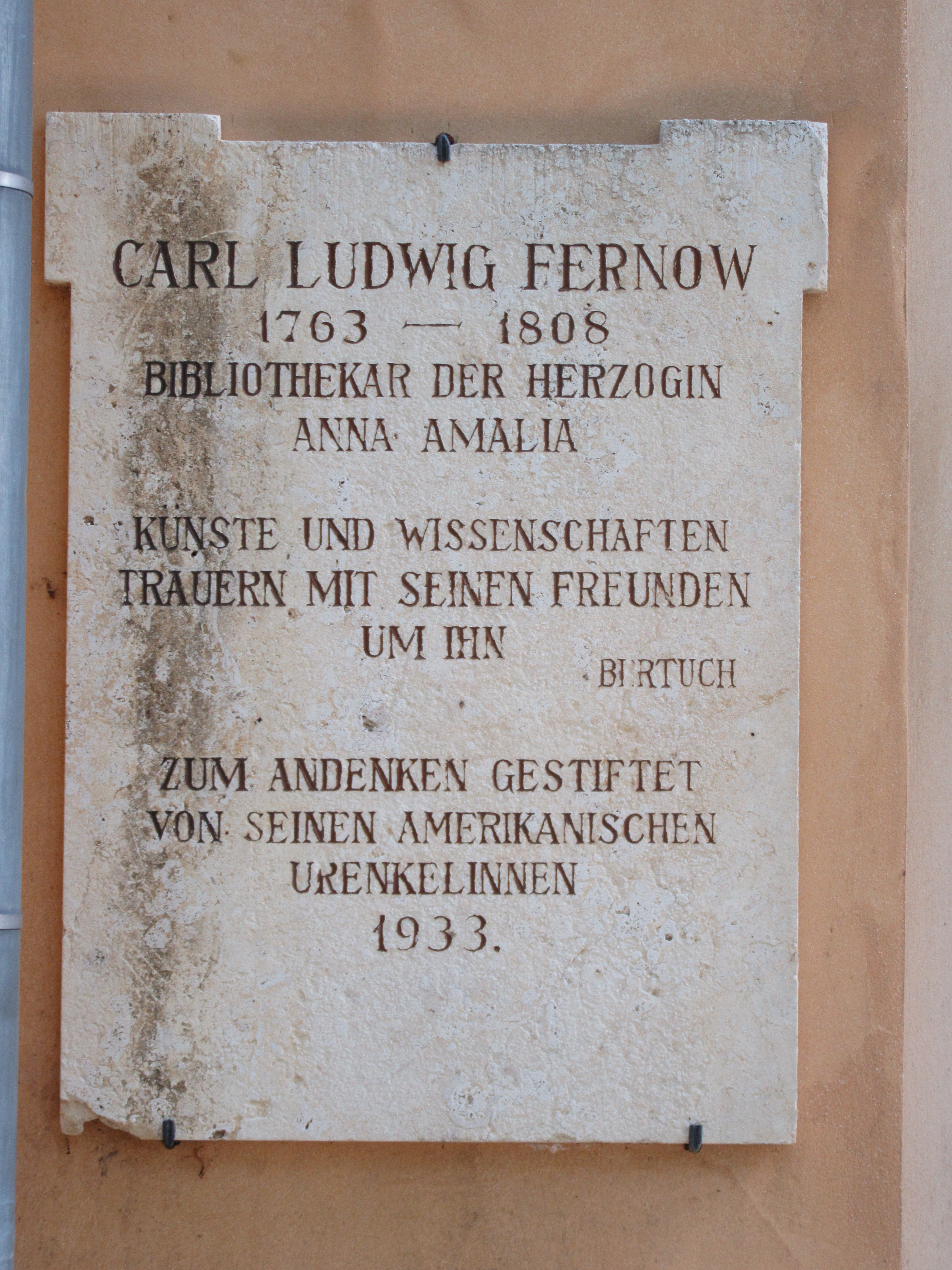 Jakobsfriedhof Weimar